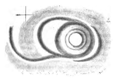 Sketch of earthworks at Penrhos, Monmouthshire, Wales. This is a possible site of Penrhos Castle of the 13th century.